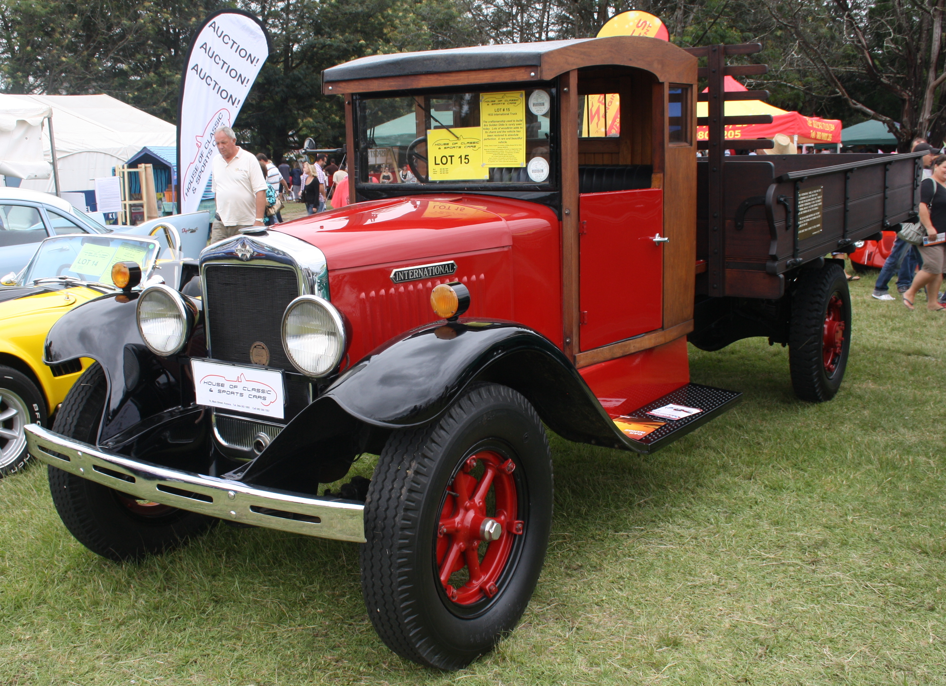 1933 International A-2 1½ Ton Flatbed truck